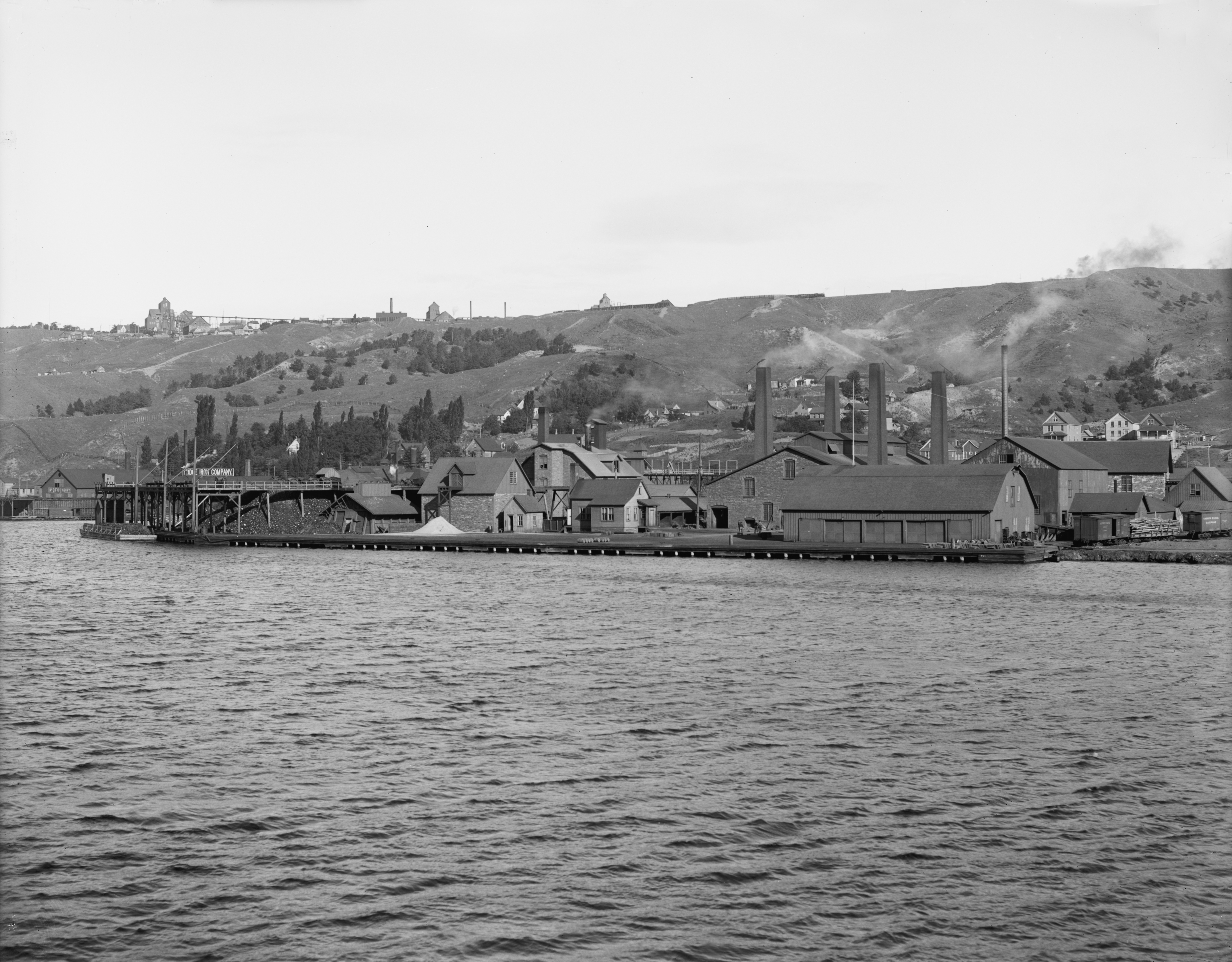 Quincy Hill and smelters in Hancock, Michigan around 1906